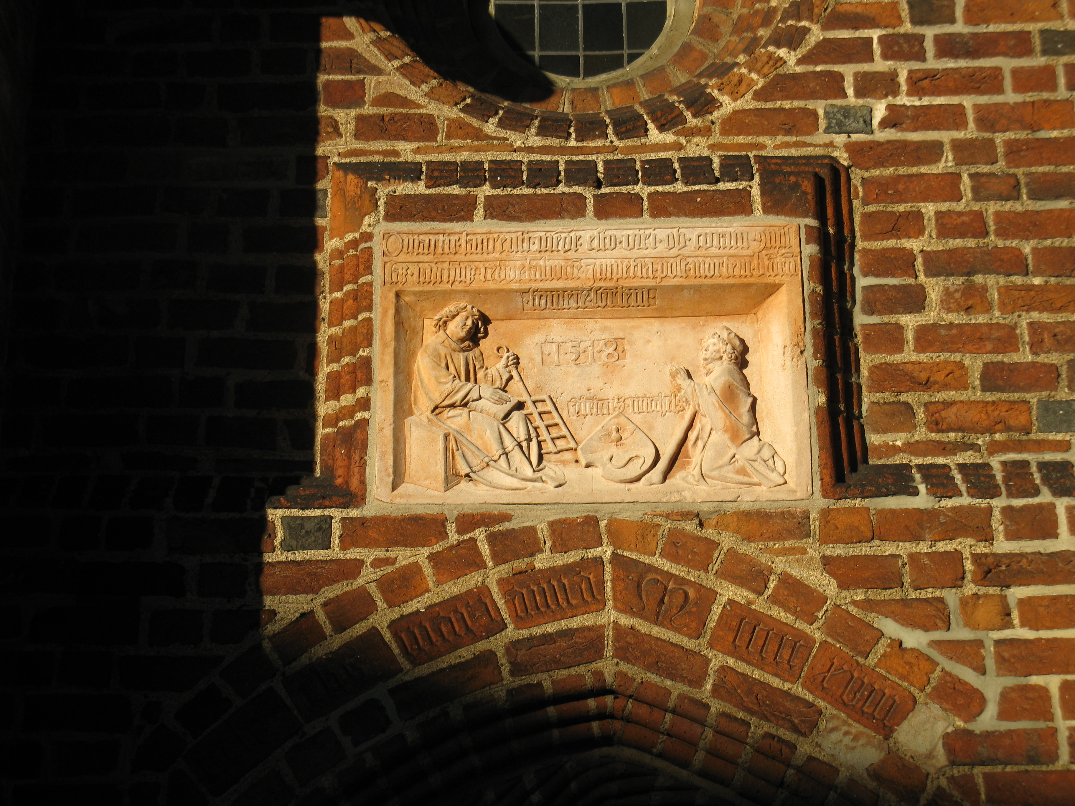 Protestant church, Wustrow (Wendland), Germany.